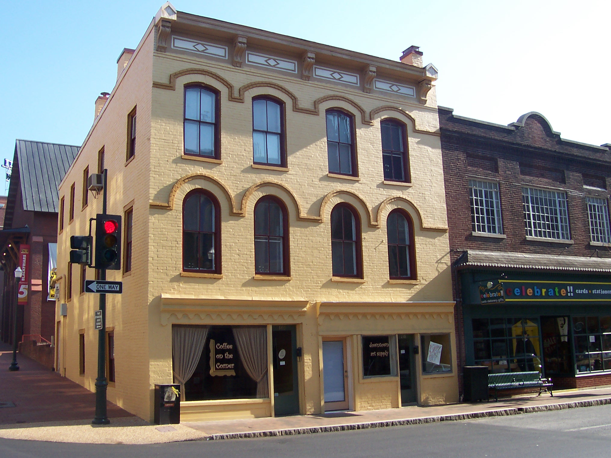 The Coffee On The Corner Building on the corner of Market and Beverley streets.